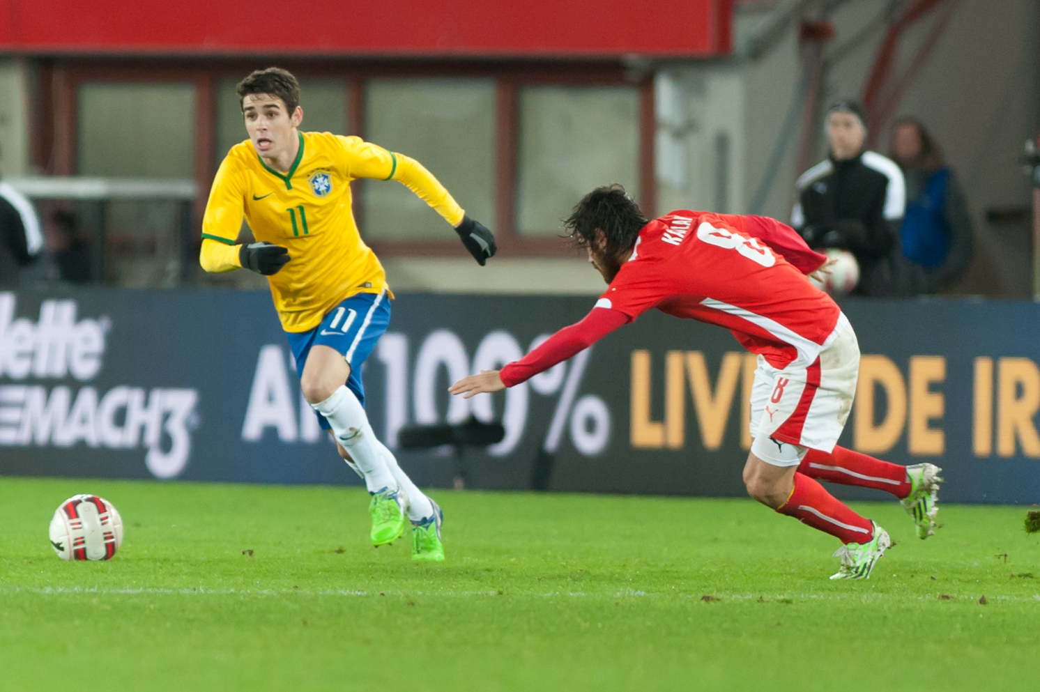 International Friendly Austria - Brazil November 18, 2014: Oscar